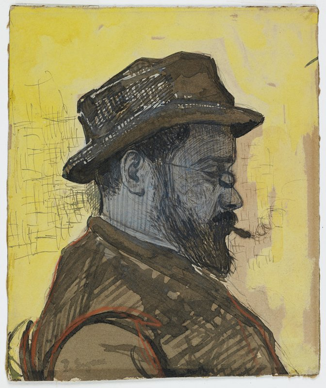 Portrait of Maximilien Luce, watercolor and gouache